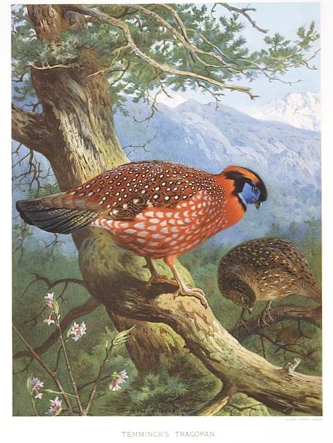 Temminck's Tragopan